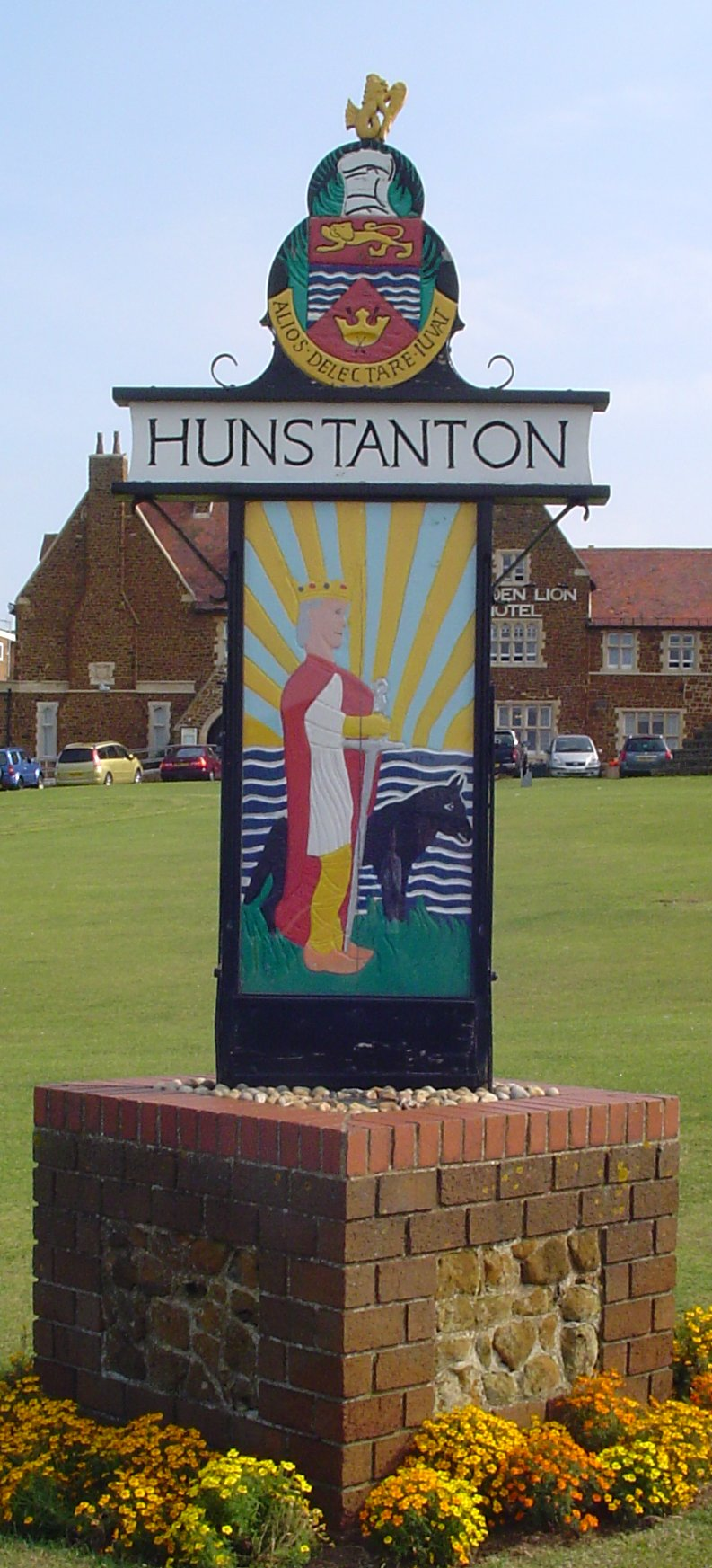 Signpost in Hunstanton